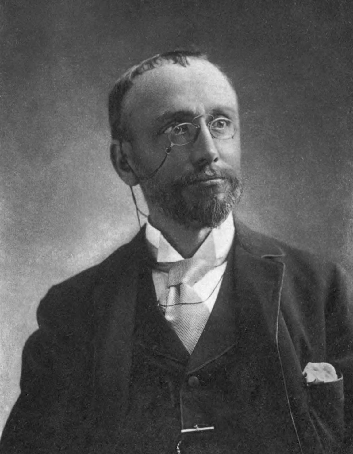 American writer Henry Cuyler Bunner